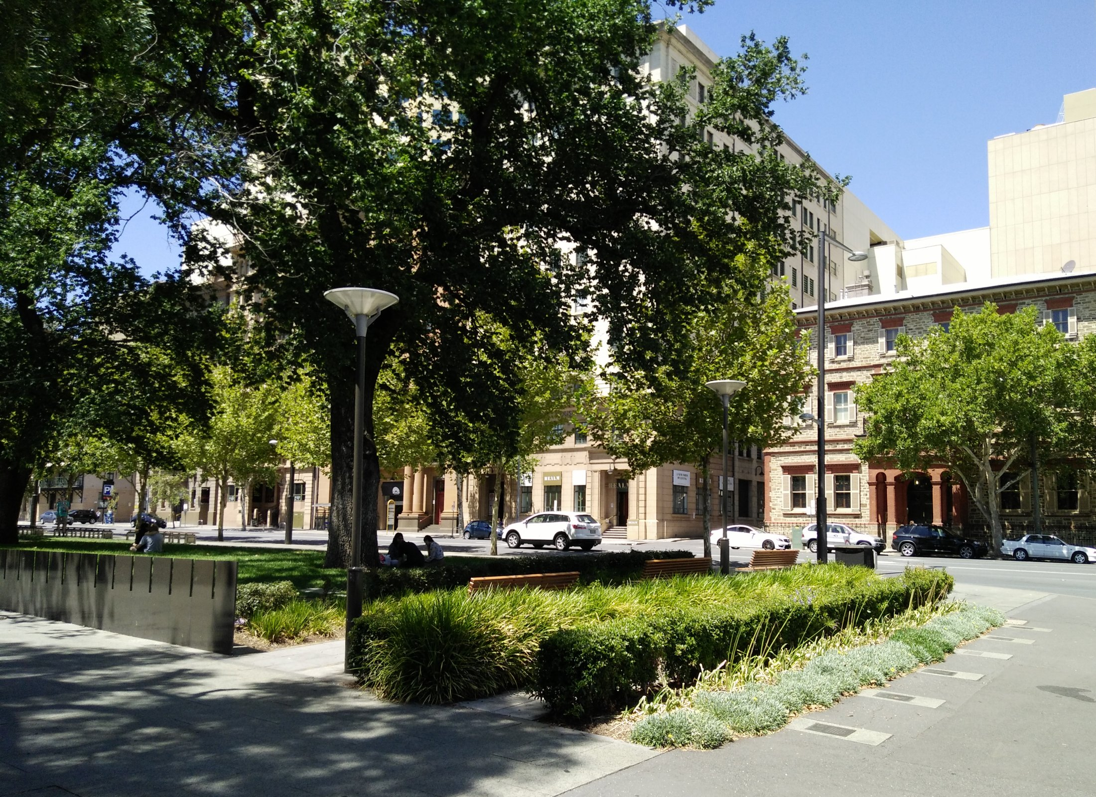 The start of the Jubilee 150 Walkway plaques - looking SSE from gates of Government House, Adelaide at the Adelaide Club.